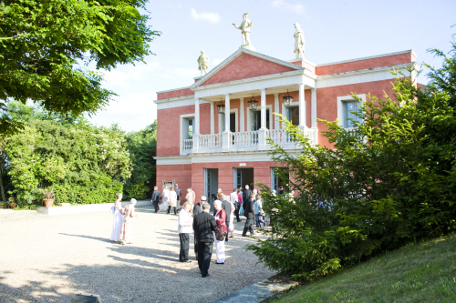 A photo of Longborough Festival Opera